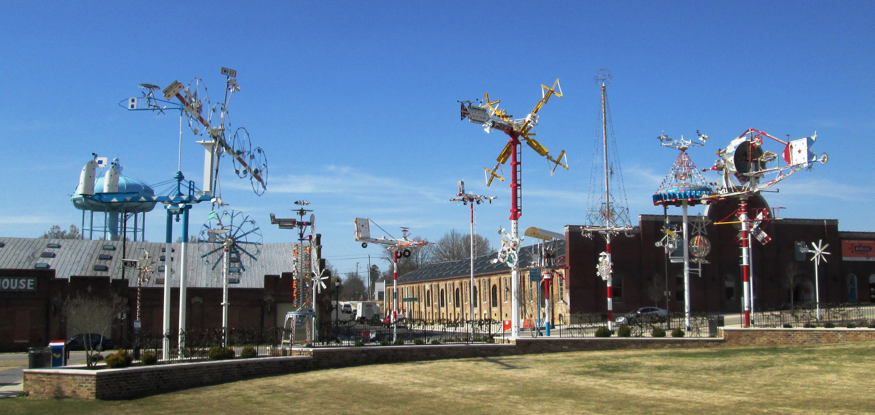 The Vollis Simpson Whirliigig Park on Goldsboro Street S. at Douglas Street S. in Wilson, North Carolina, opened on November 2, 2017 to document, conserve, and display the large whirlgigs from Simpson's property in Lucama, North Carolina. Wilson held its first annual Wilson Whirligig Festival in 2004. It was renamed in 2016 to the North Carolina Whirligig Festival, and is usually held the first full weekend of November. The North Carolina legislature named the whirligig the state's official folk art in June 2013.